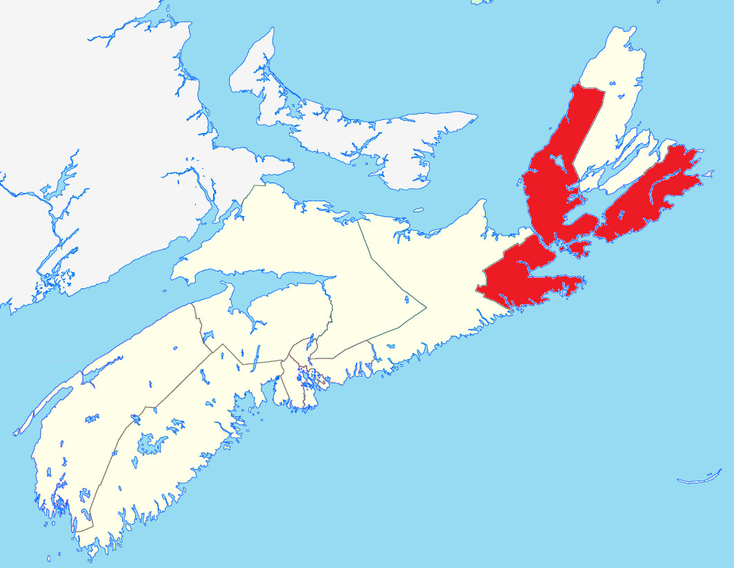 Map of Cape Breton-Canso